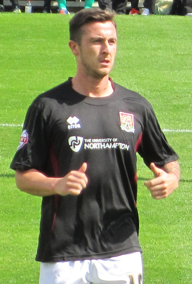 Roy O'Donovan.